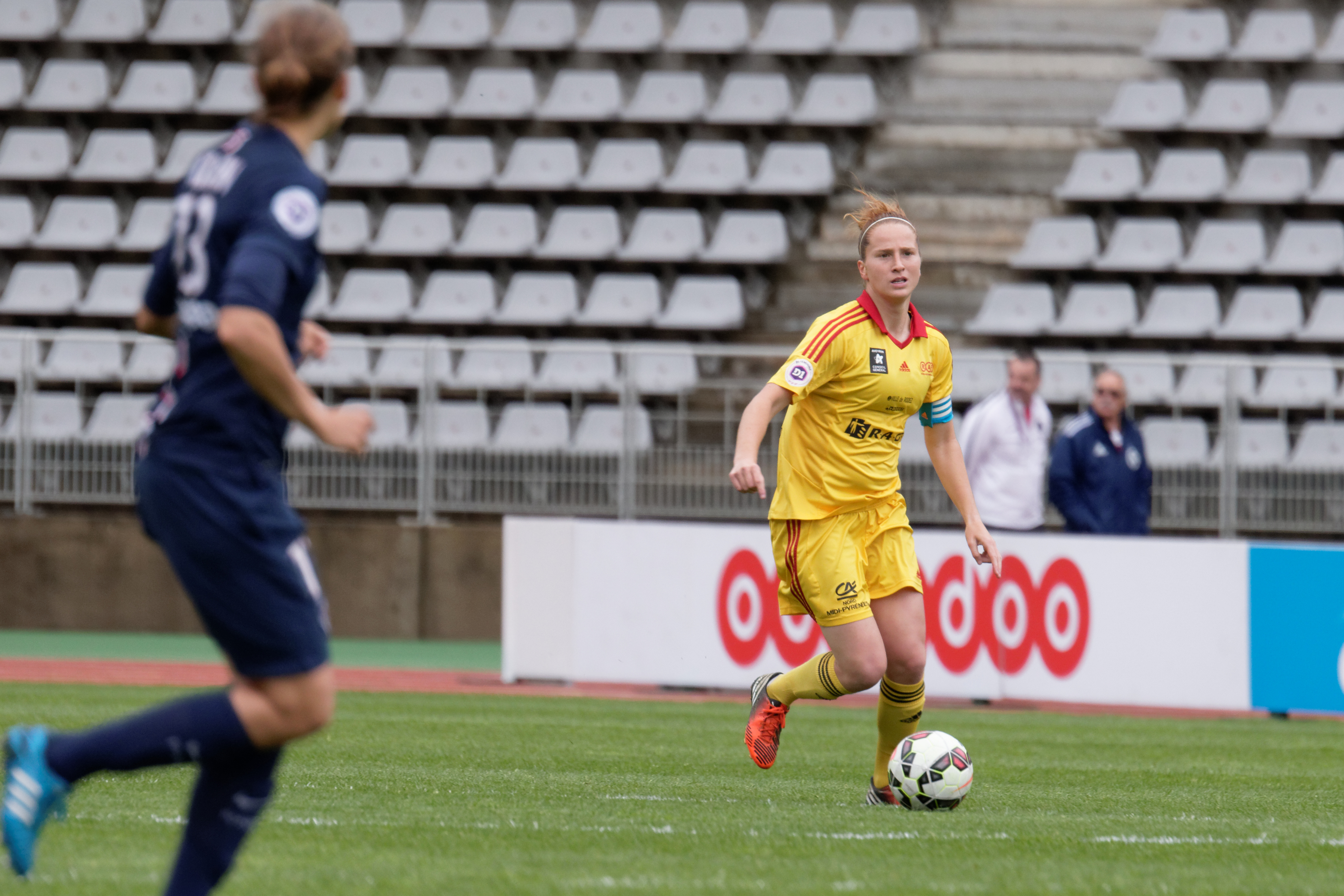 PSG vs Rodez, 3rd May 2015.